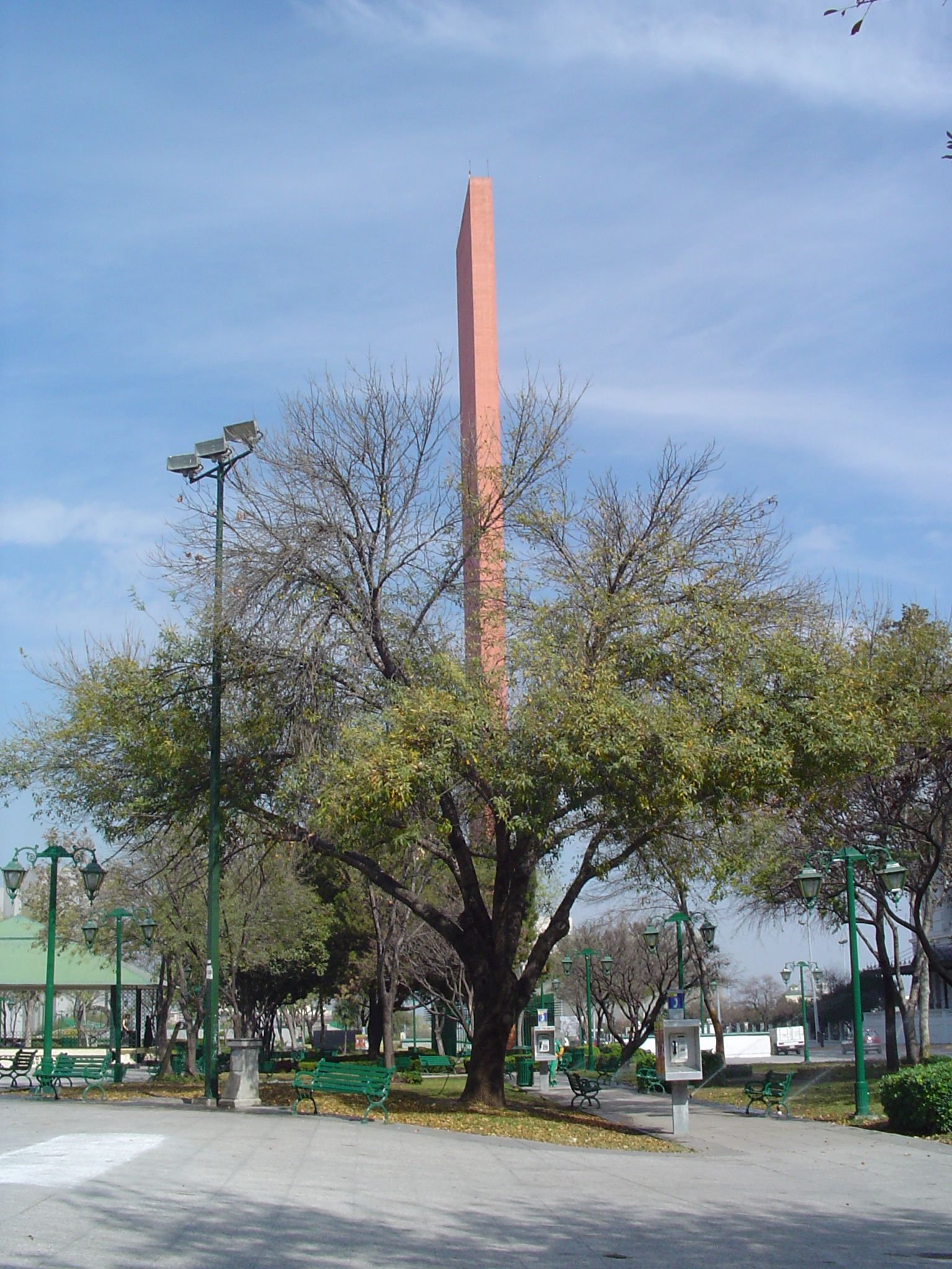 Faro del Comercio (Lighthouse of Commerce), a lasser-emiting monument located at the Macroplaza in Monterrey, Mexico. Length: 68,80 m. (225.72 ft) hight and 12.33 m.(40.45 ft) wide. It has a green laser light on every night. Designed by Luis Barragán and built by Raul Ferrera to commemorate the first century of the Monterrey Trade Chamber (1984).